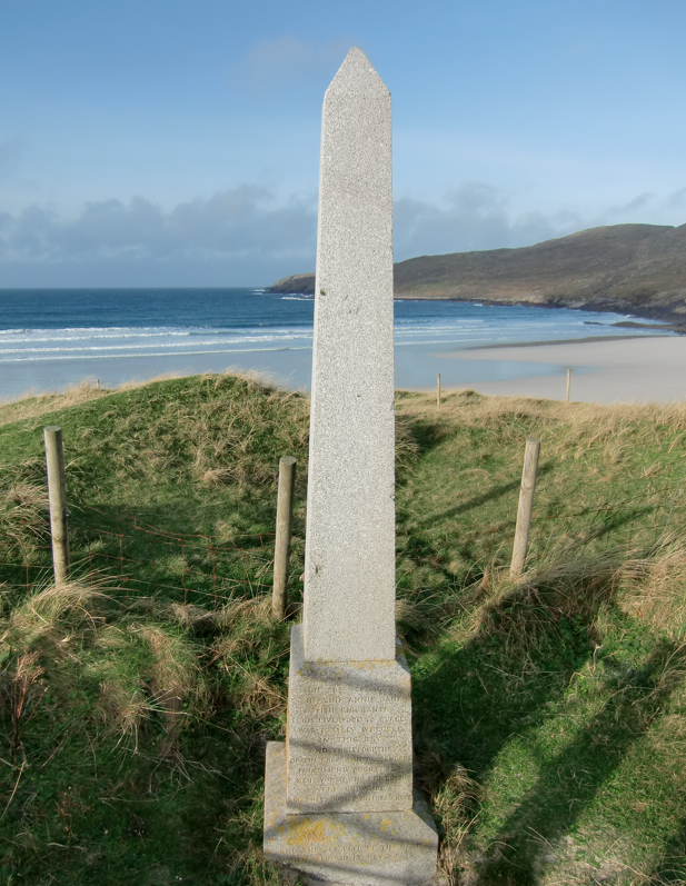 Monument to the wreck of the Annie Jane, Vatersay, Outer Hebrides